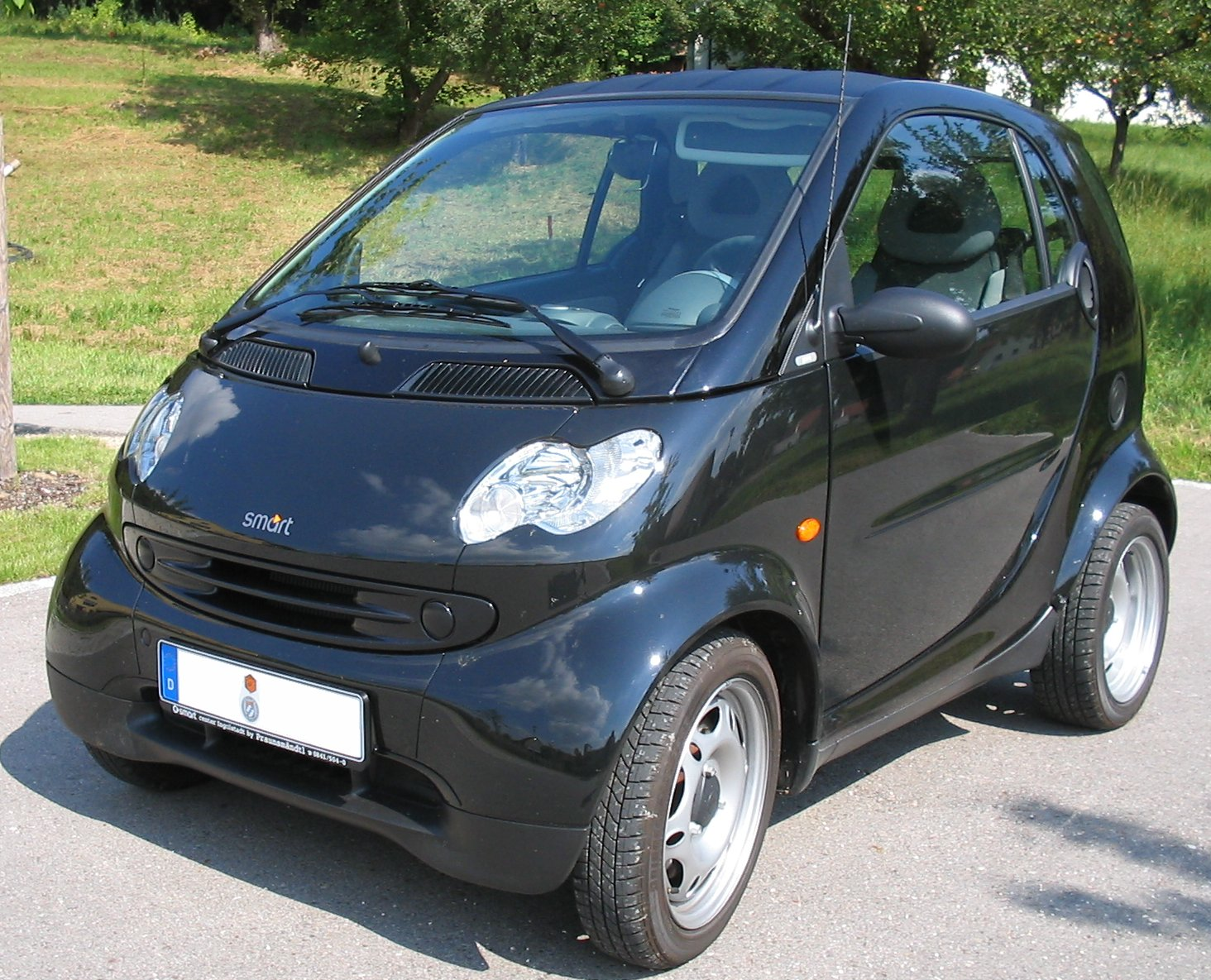 Summary Bildbeschreibung: smart city-coupé, 2. Generation Quelle: selbst fotografiert Fotograf: Benutzer:Eppasandas Datum: Juli 2003